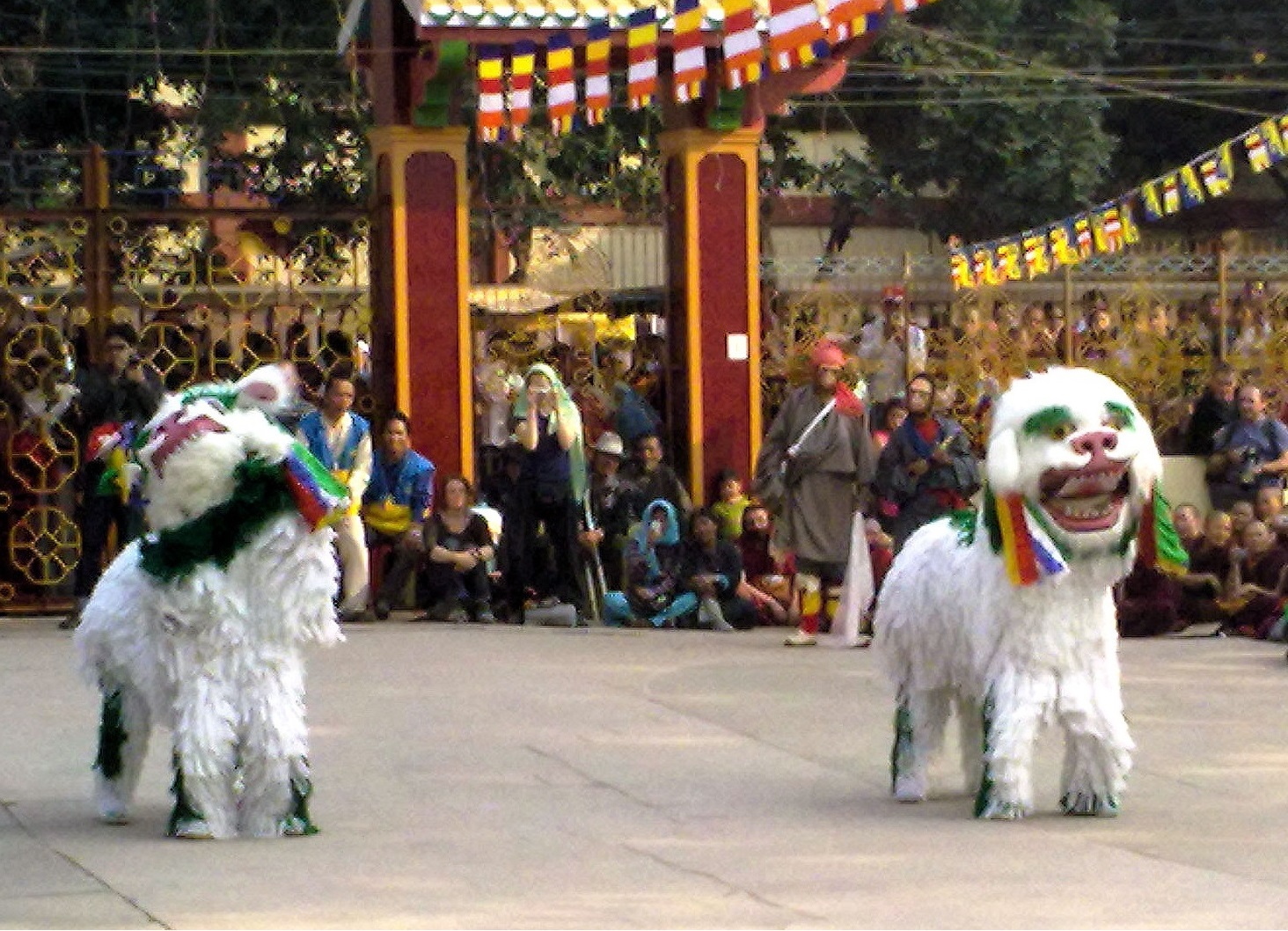 Snow Lion Dance at the "Karma Temple" Bodhgaya, Kagyu Monlam 2010/11. Image trimmed to focus on lions.